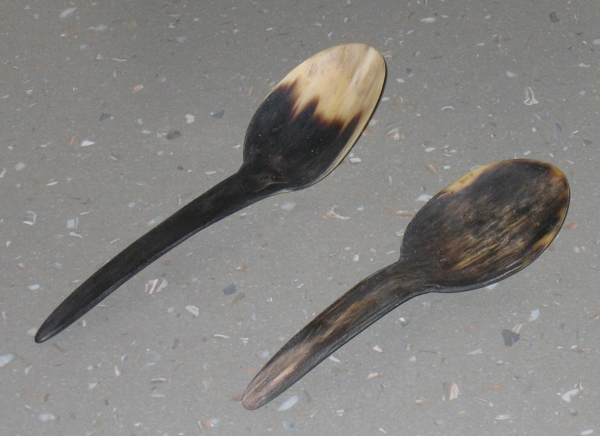 Hornskei. Spoon made of animal horn